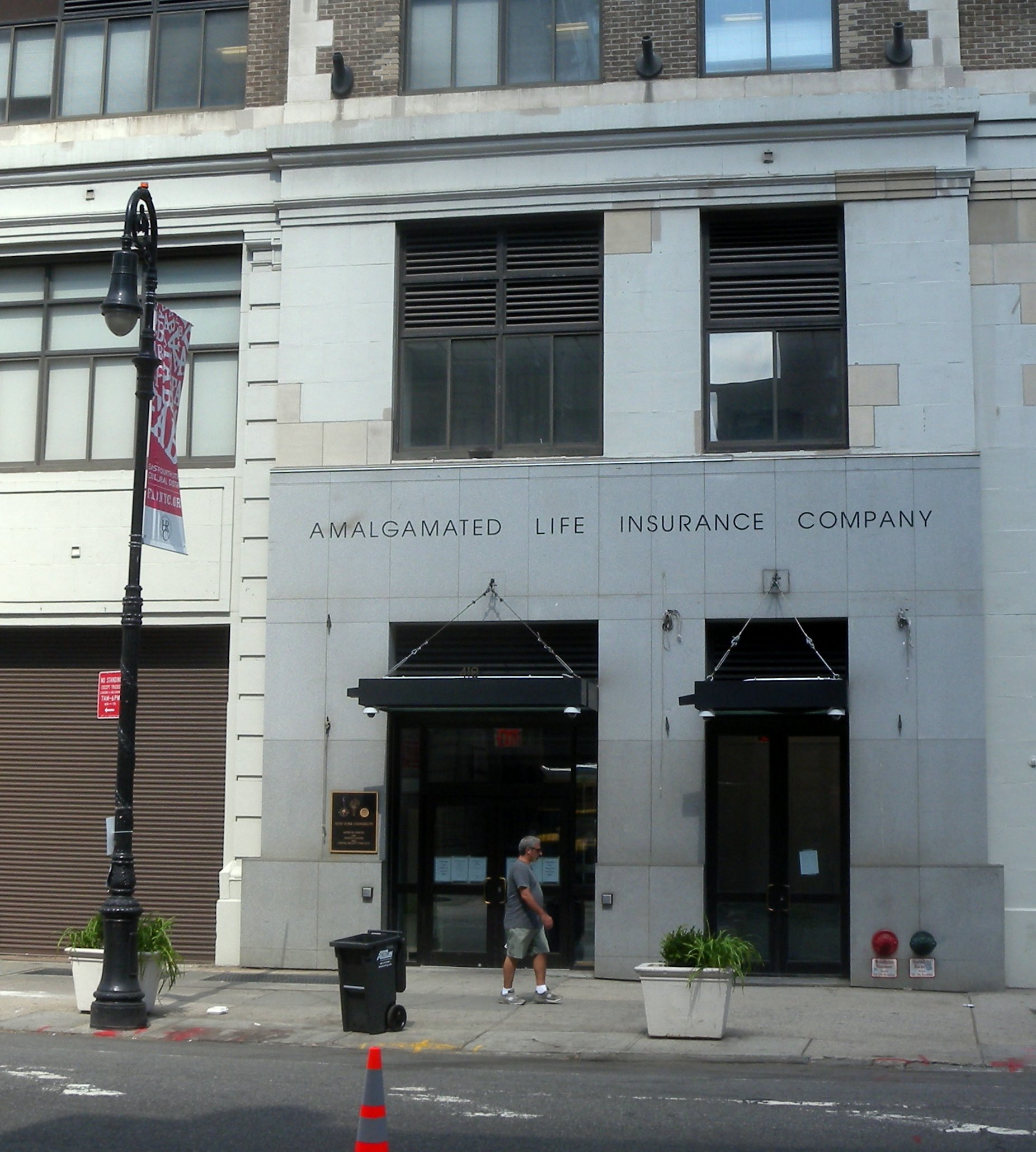 Looking west across Lafayette Street at Amalgamated Insurance Company on a sunny morning.